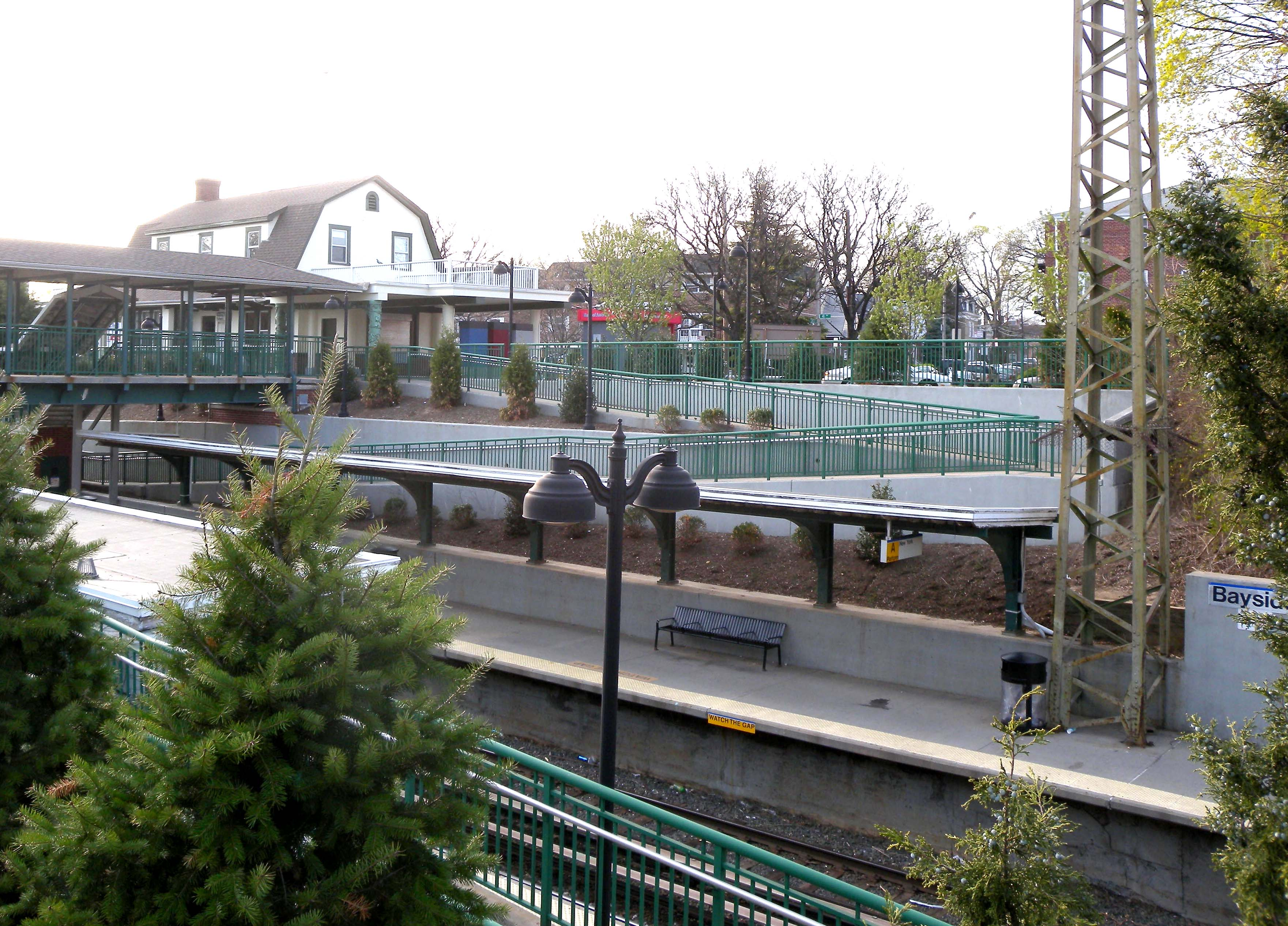 Looking northwest at Bayside (LIRR station) from above the eastbound staircase late in the afternoon. See also File:Bayside LIRR jeh.JPG.